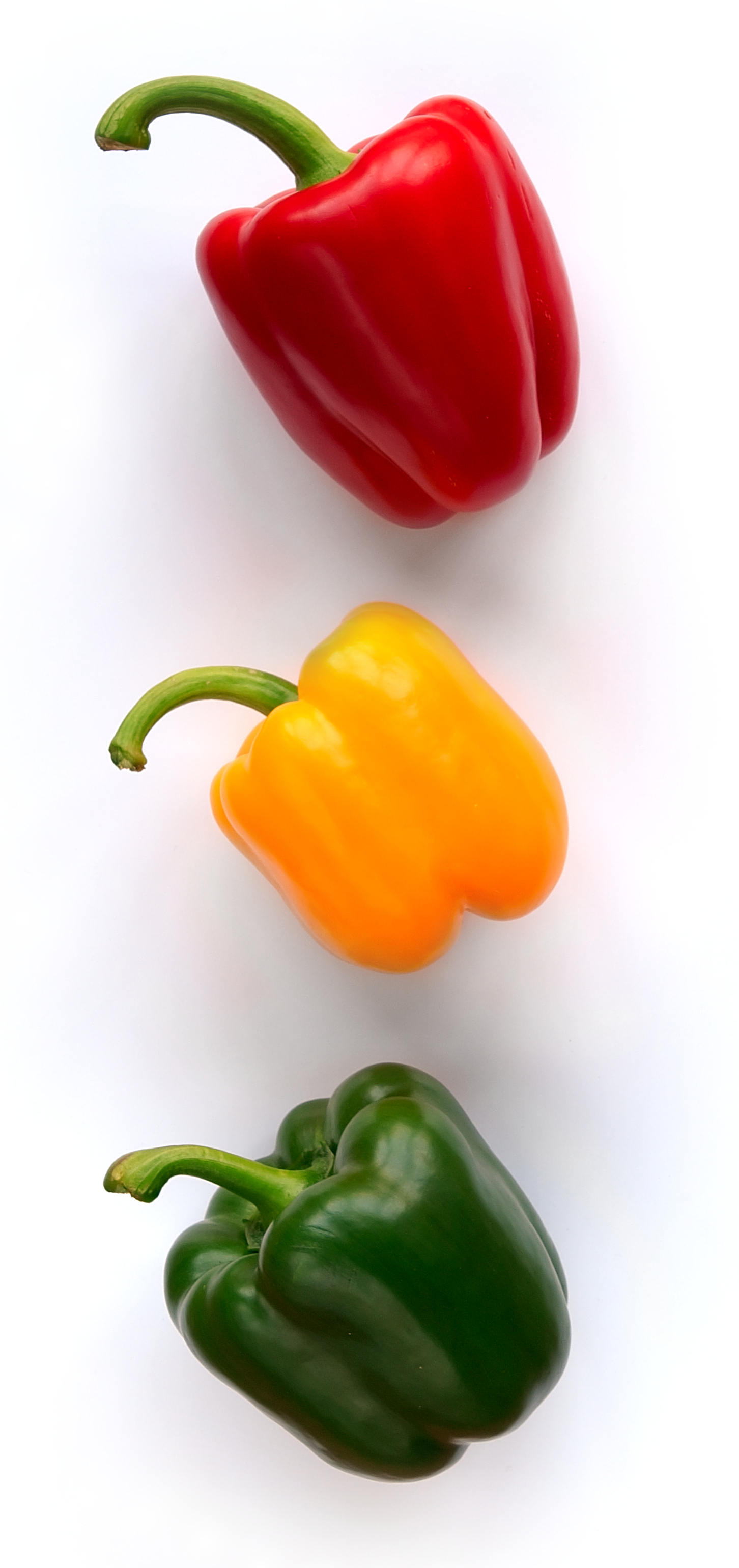 Three bellpeppers (Capsicum annuum) from three different cultivars.